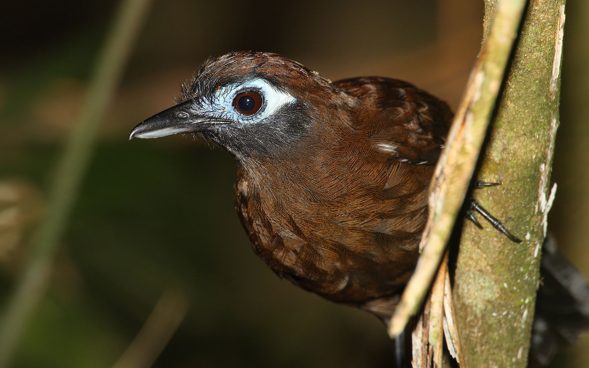 A female Immaculate Antbird at Parque Nacional Darién, Panama.